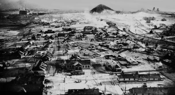 The Vorkuta industrial concentration camp complex was located 160km above the Arctic Circle. The city had a population of approximately 15,000 and about 50 camps with more than 50,000 inmates.(Photos from the collection Tomasz Kizny, author of Gulag.)